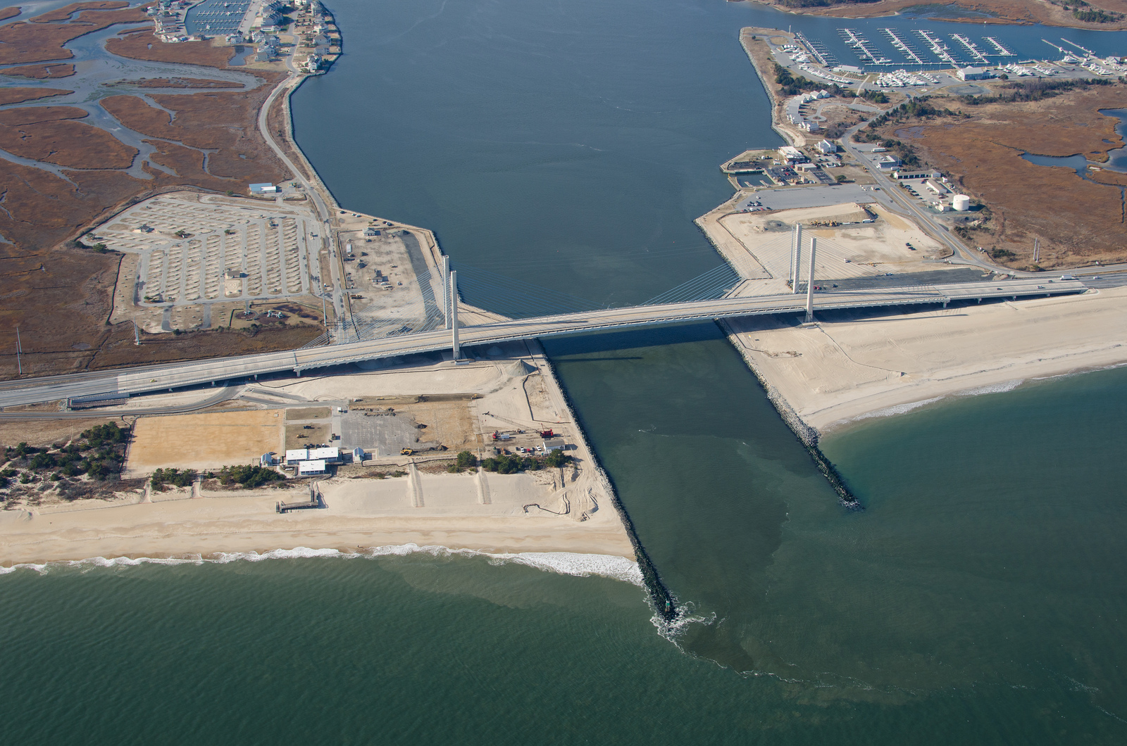 Indian River Inlet Bridge shot from 2,000ft.